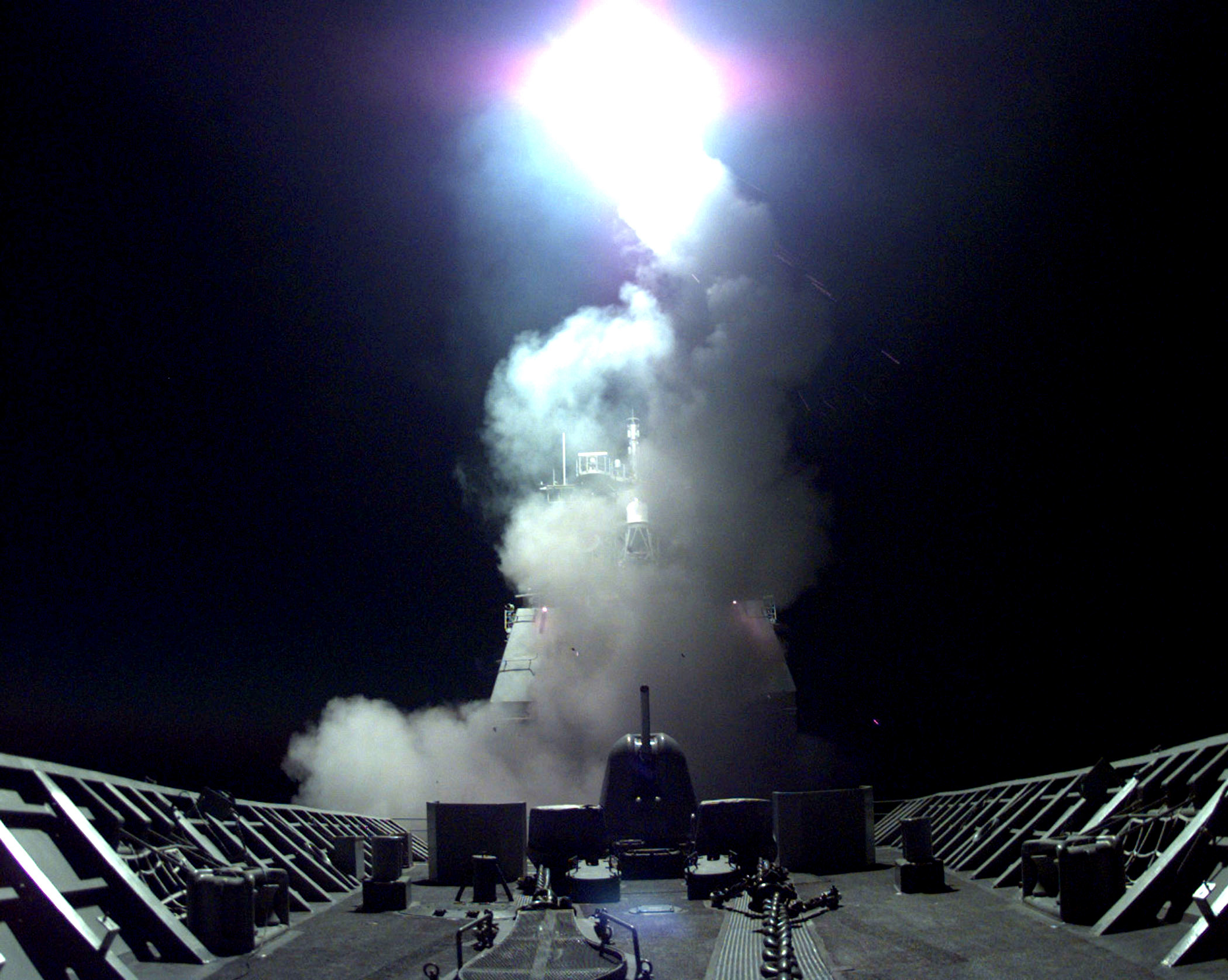 A Tomahawk cruise missile launches from the bow of the USS Philippine Sea (CG 58) headed for a target in Kosovo on March 24, 1999. The U.S. Navy cruiser is operating in the Adriatic Sea in support of NATO Operation Allied Force.